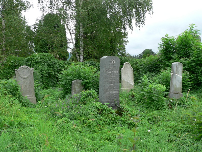 Description: Jewish cemetery in Jablunkov (Jabłonków), Czech Republic. Date: 7 August, 2006 Camera: Panasonic DMC-FZ20 Author: Czesil